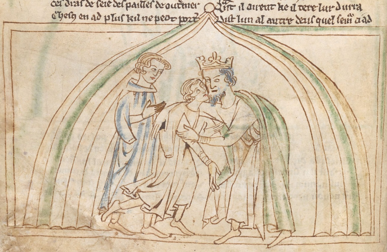 Charlemagne embraces Roland. Chanson d'Aspremont, British Library Lansdowne MS 782 f022v.